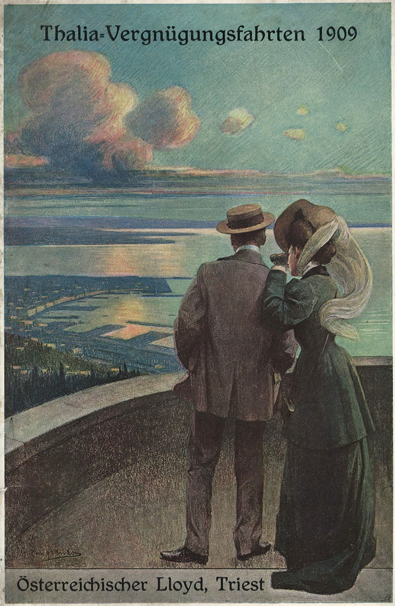 Advertizement of the Austrian Lloyd Thalia-Vergnügungsfahrten 1909, front cover (Painter: Giovanni Zangrando [+ 1941])